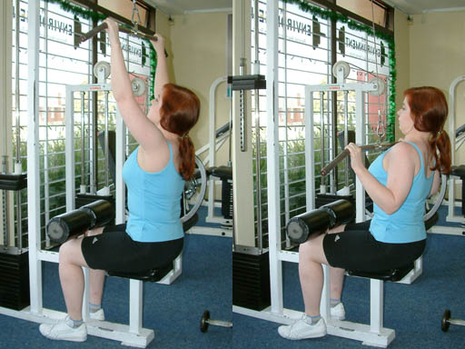 Thanks go to the model, Emily.